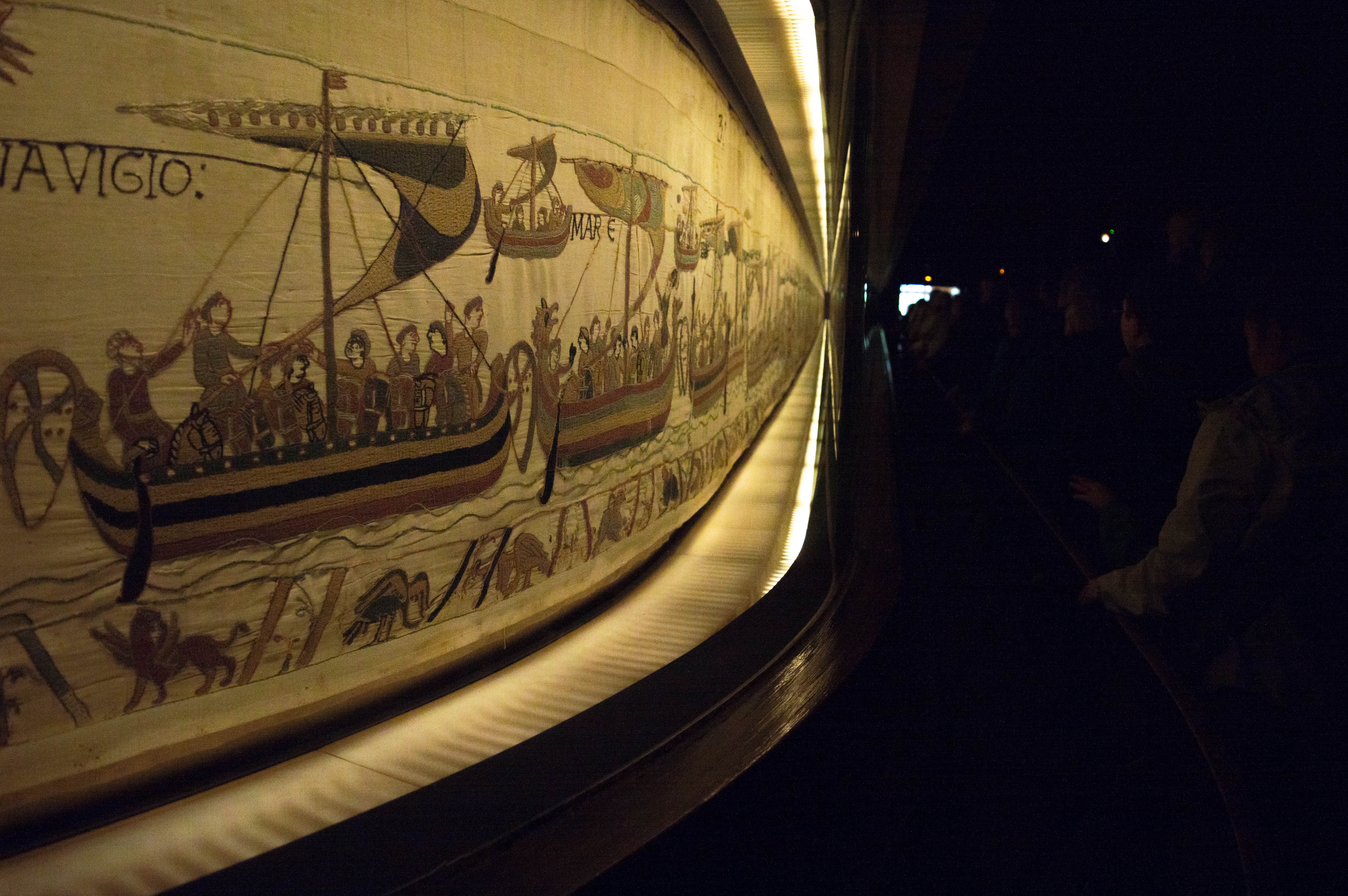 The Bayeux Tapestry in its museum.